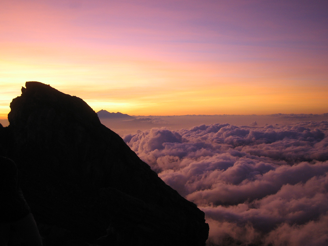 View from the top of Mount Agung. That's Mount Rinjani on the horizon.